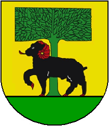 Coat of arms of Saulcy, Canton of Jura, Switzerland